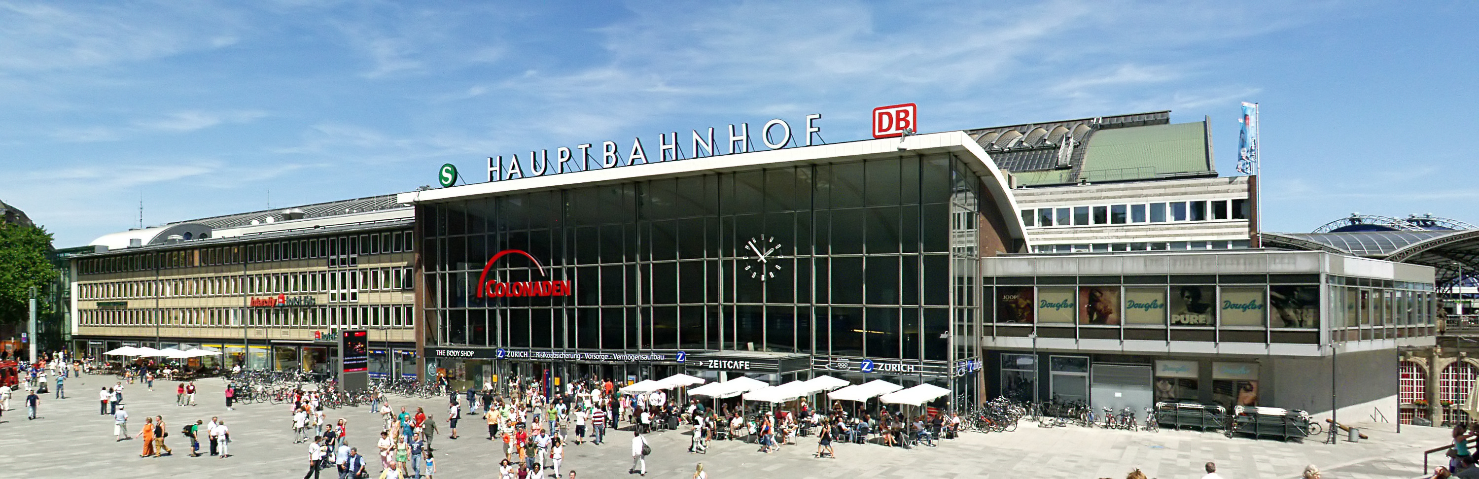 Front of railway main station Cologne, Germany This is a photograph of an architectural monument.